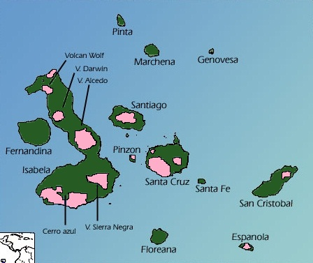 Map of the Galapagos Islands; in pink: distribution of Chelonoidis nigra complex.